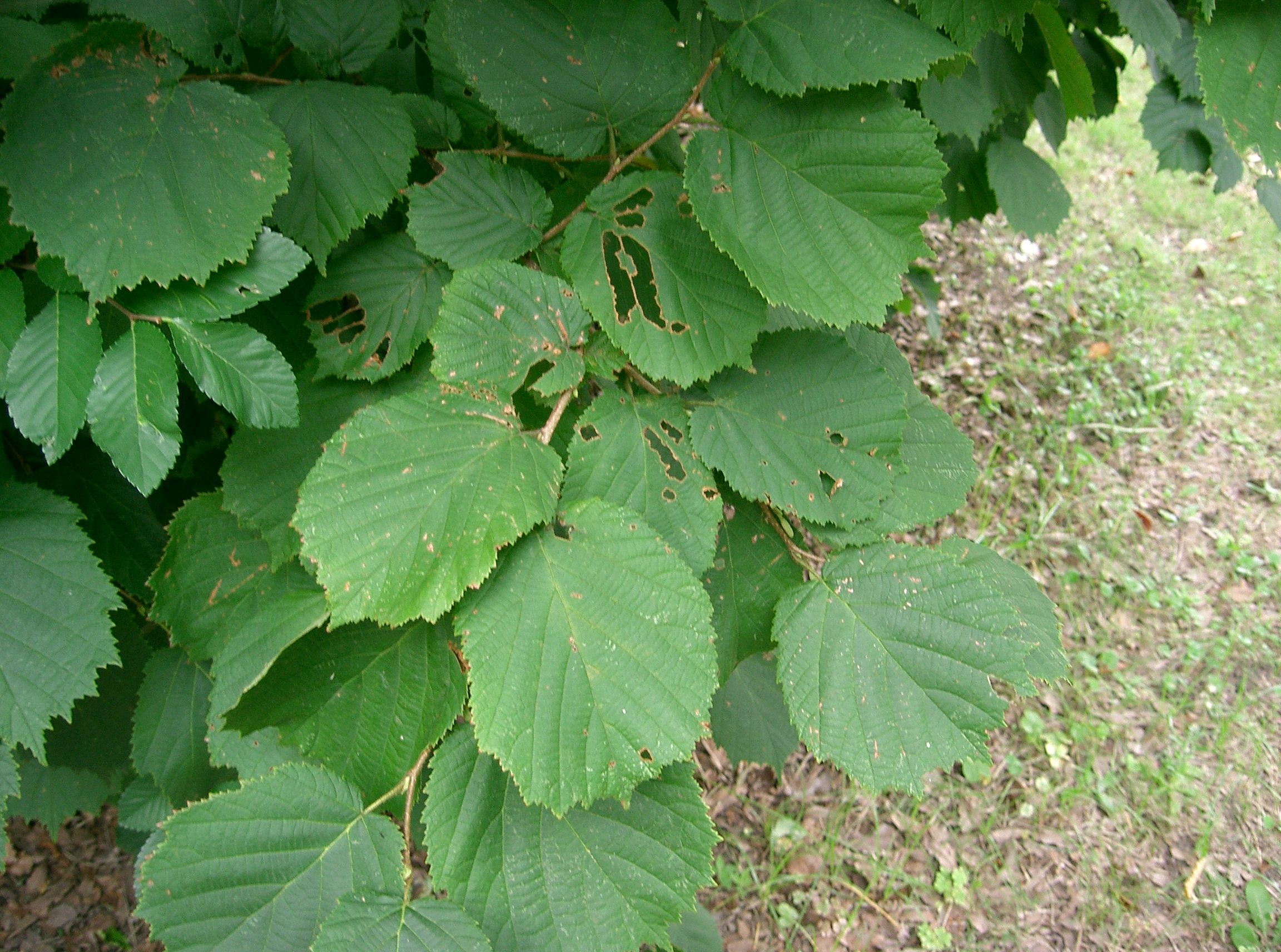 Scientific name Corylus heterophylla var. thunbergi (=C. heterophylla var. japonica)